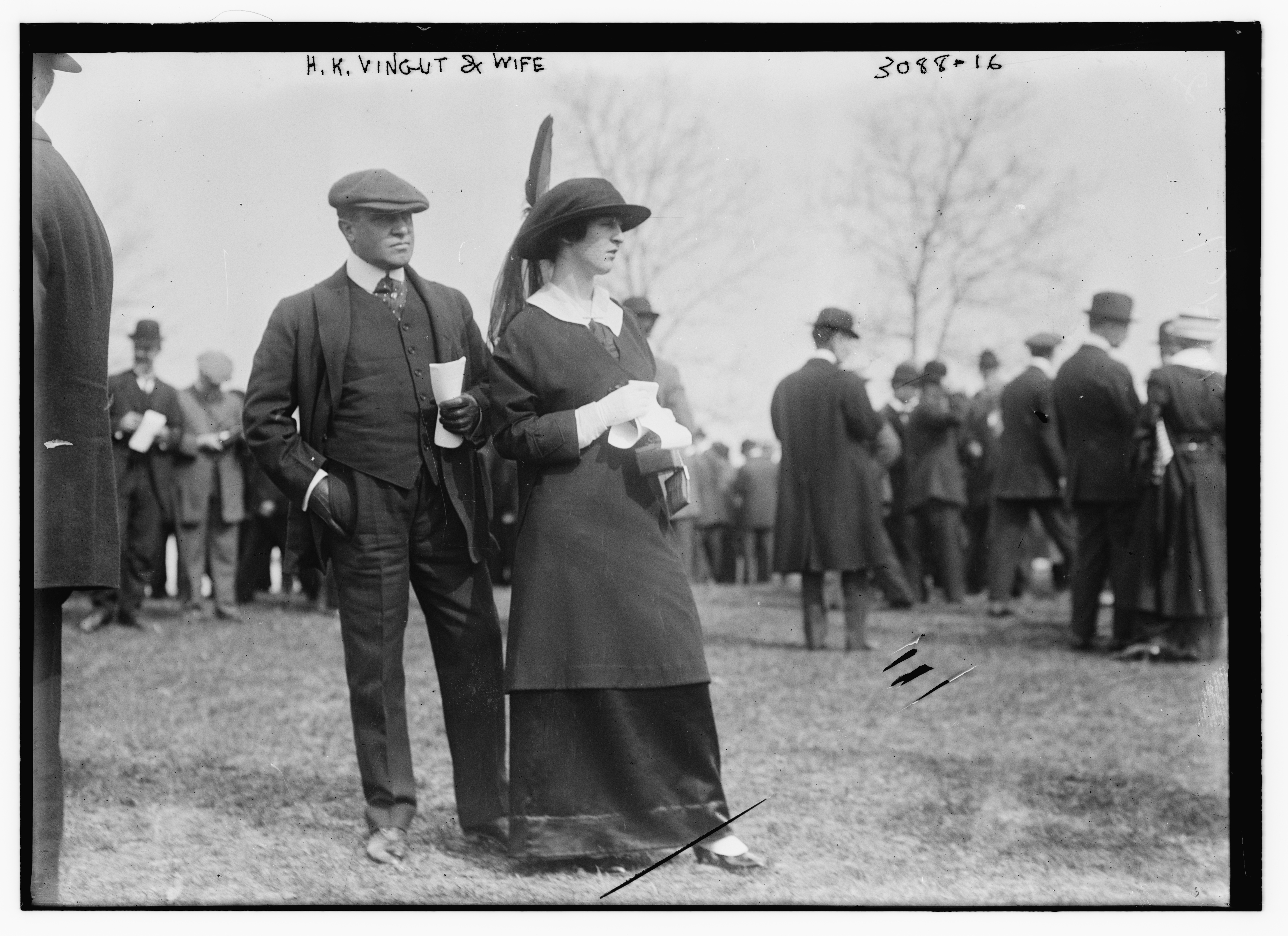 H. K. Vingut and wife on May 9, 1914 at the Meadow Brook Cup. Bain News Service,, publisher. H.K. Vingut and wife [between ca. 1910 and ca. 1915] 1 negative : glass ; 5 x 7 in. or smaller. Notes: Title from unverified data provided by the Bain News Service on the negatives or caption cards. Forms part of: George Grantham Bain Collection (Library of Congress). Format: Glass negatives. Repository: Library of Congress, Prints and Photographs Division, Washington, D.C. 20540 USA, General information about the Bain Collection is available at Persistent URL: Call Number: LC-B2- 3088-16